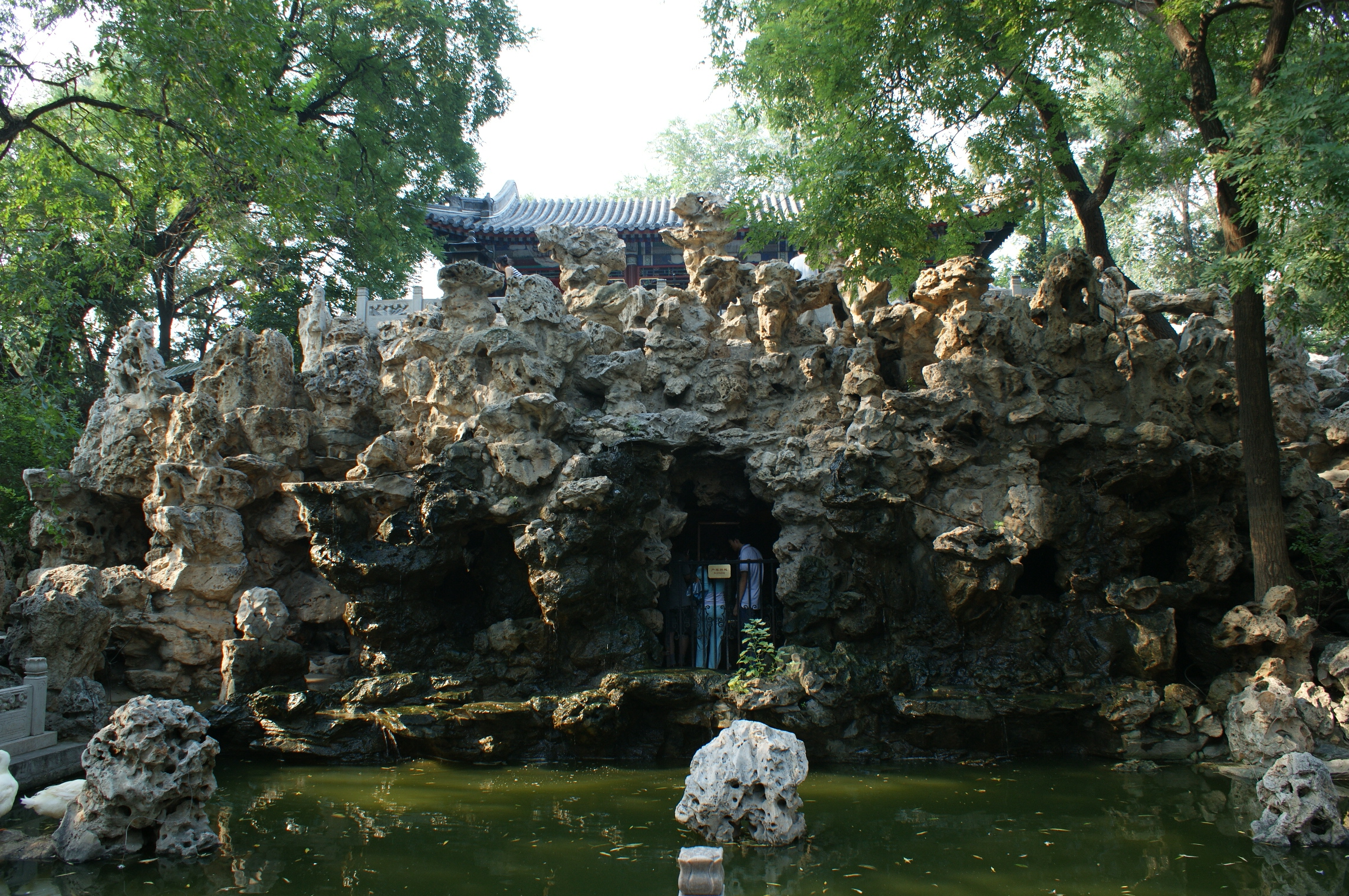 The Gong Wang Fu (Prince Gong Mansion) in Beijing